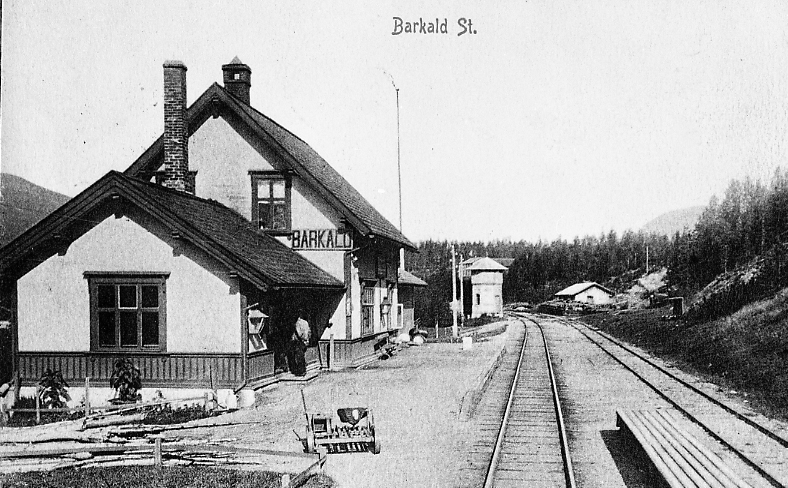 Barkald train station (Barkald stasjon) in Alvdal, Norway